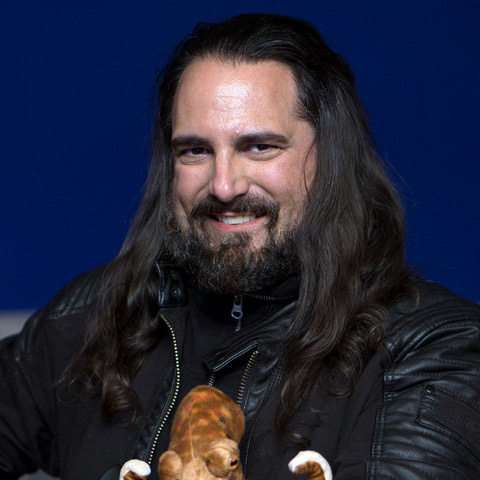 Portrait of the artist Sebastian Fleiter